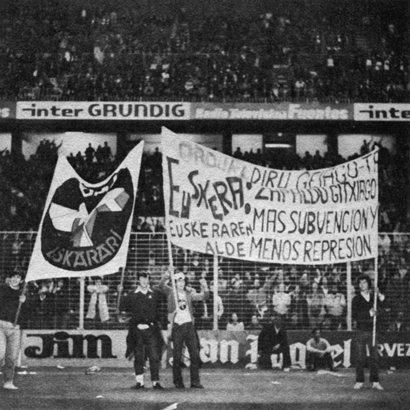 Festival at the end of Bai Euskarari campaign, in San Mames football field, Bilbao, June 17, 1978